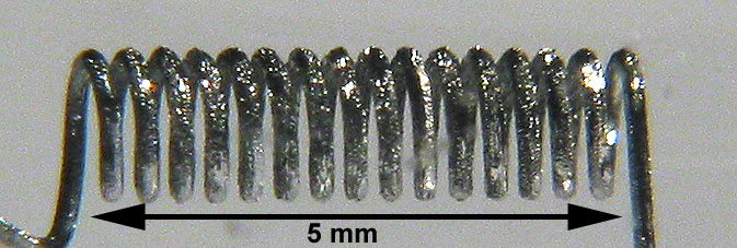 Filament of a tungsten halogen H1 car lamp 12 V / 55 W after several hundreds of hours lifetime. Clearly visible the effect of sublimated Tungsten vapors due to the chemical process in the lamp